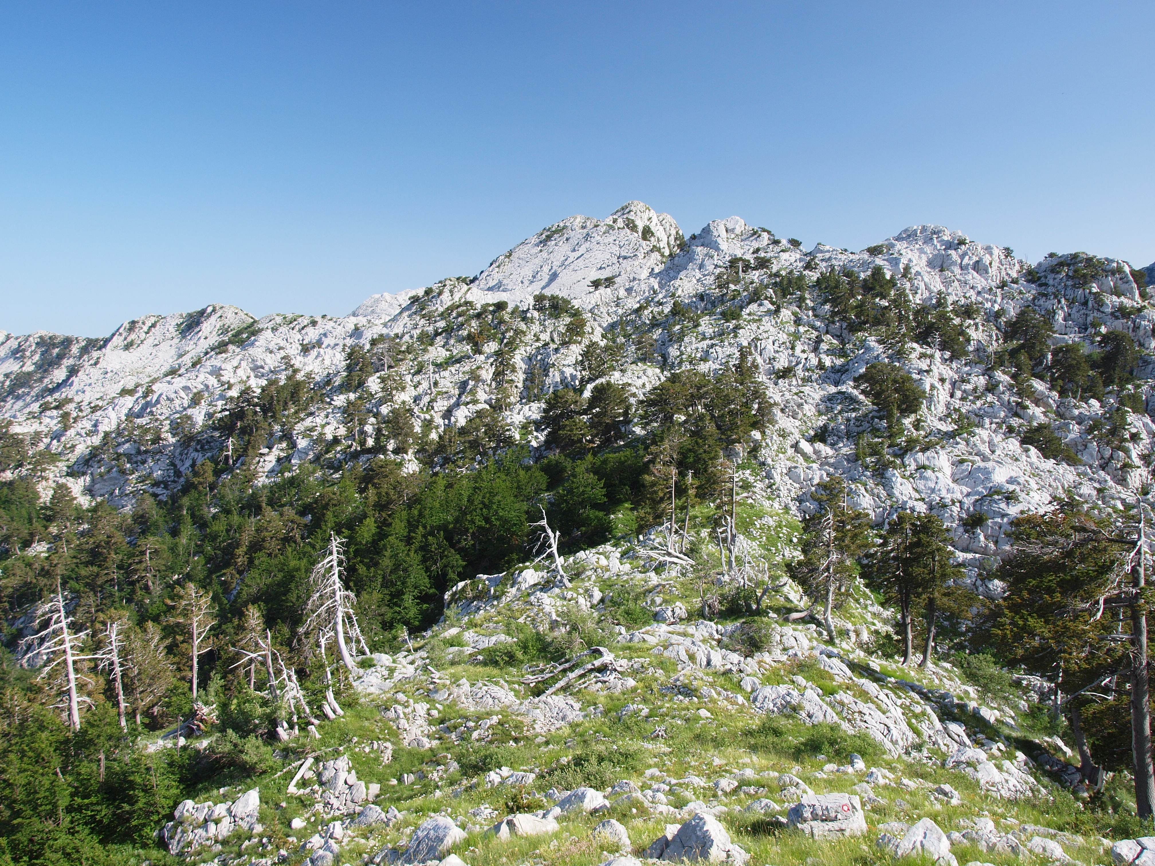 Glaciokarst Vucji zub Mt Orjen leg P.Cikovac